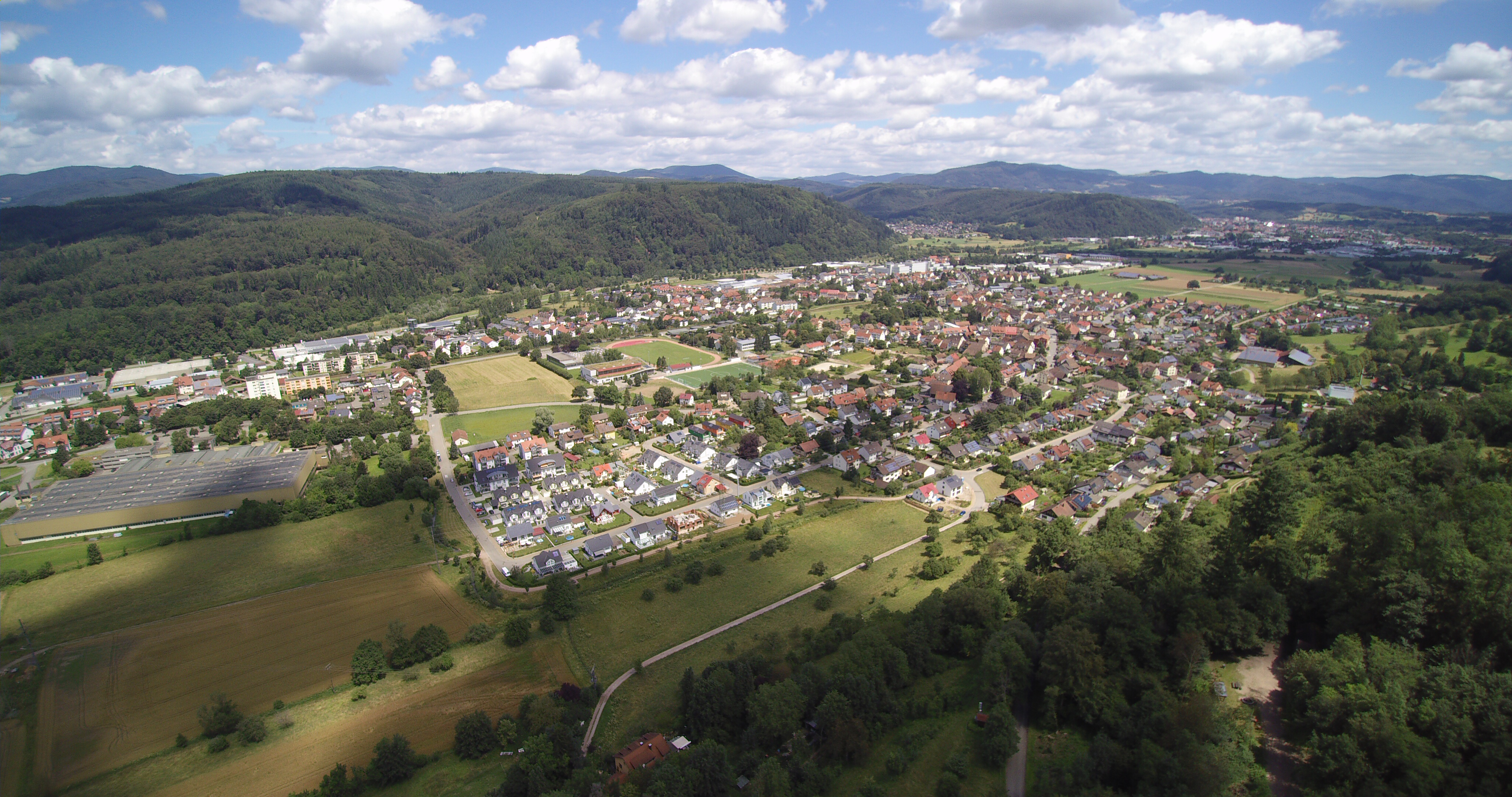 Aerial View of Maulburg, a town in southern Baden-Würrtemberg, Germany.